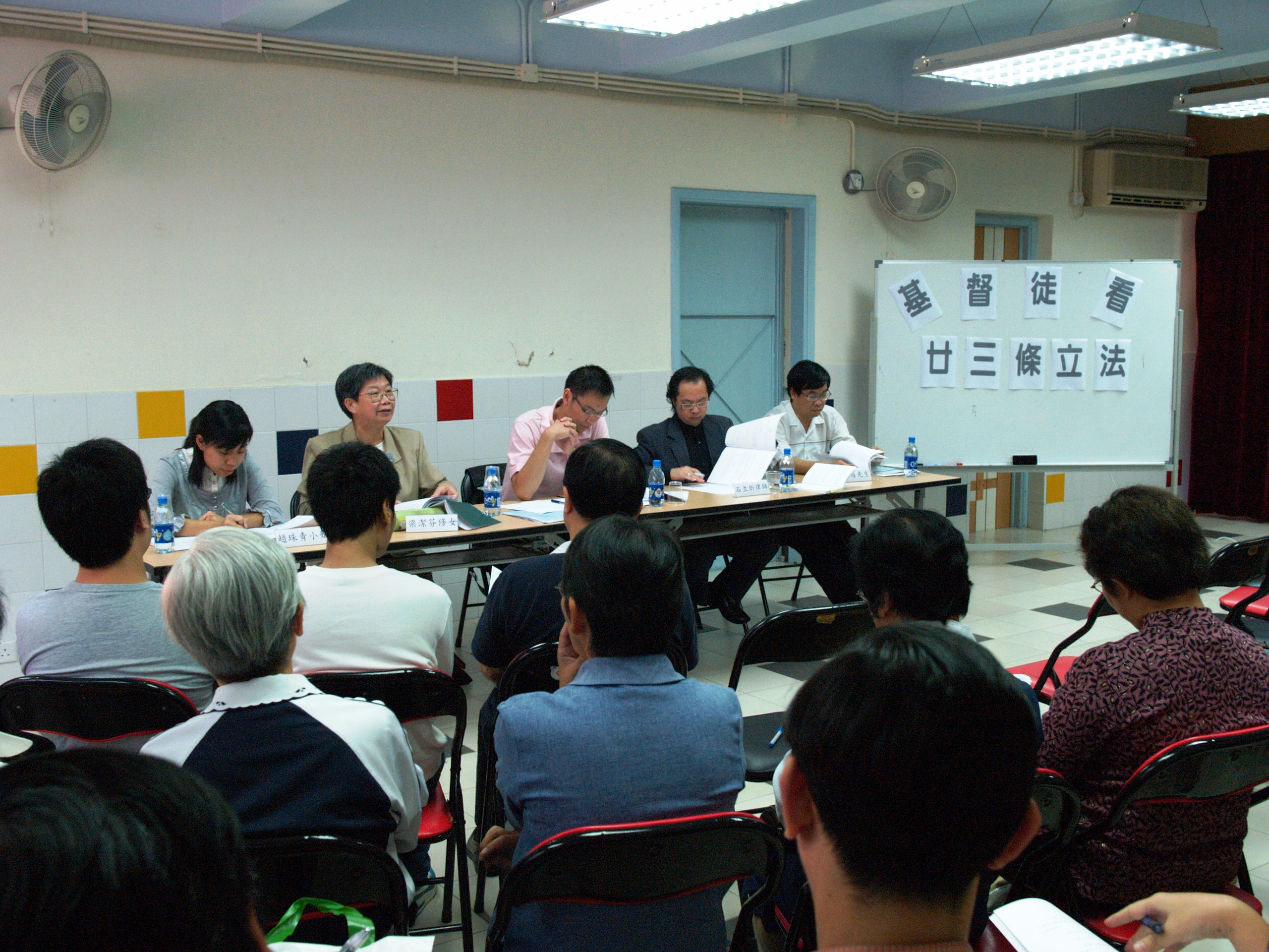 A panel organized by Catholics in Macau discussing the Article 23 legislation